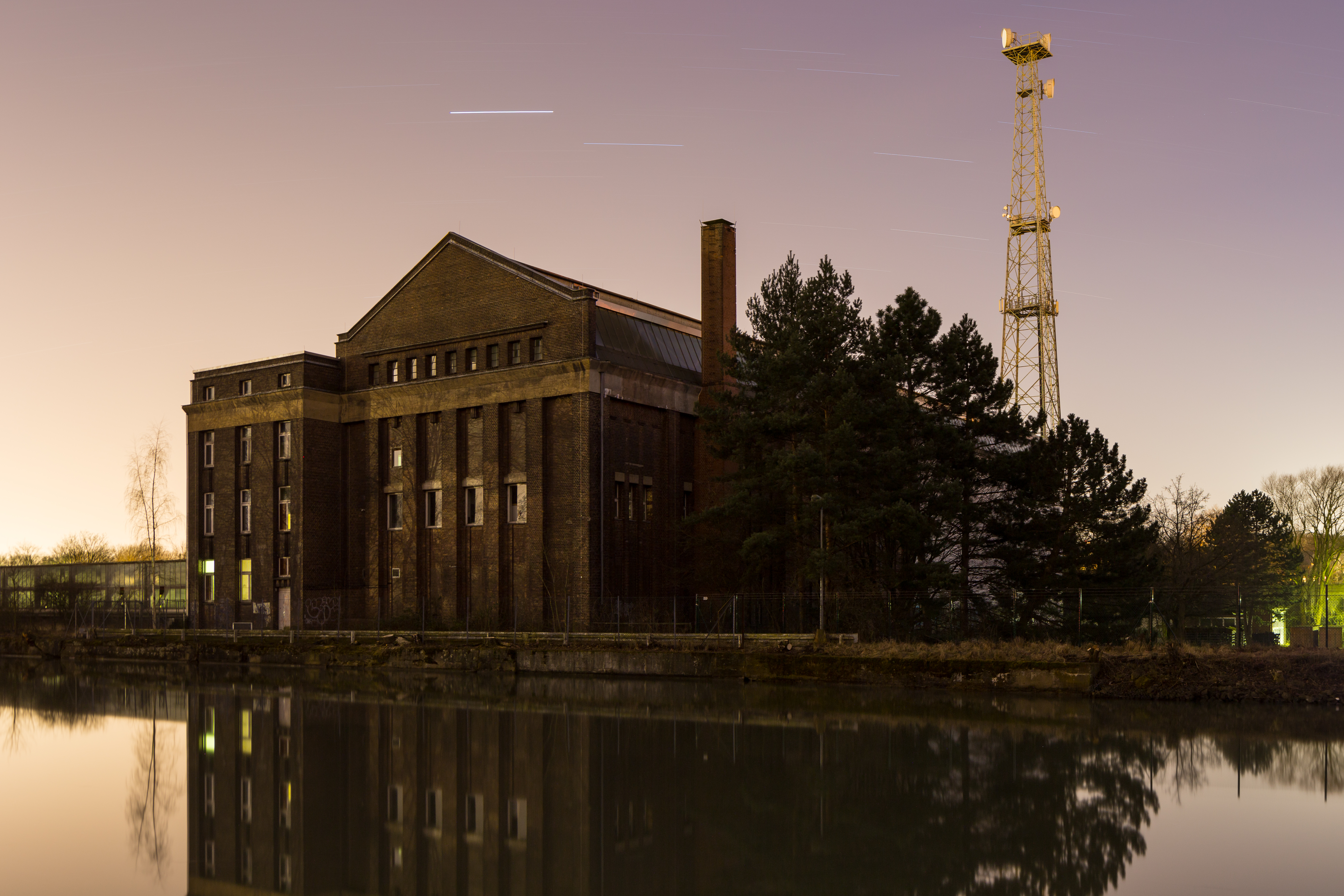 Former Ahlem power plant located at the Linden branch canal in Ahlem quarter of Hannover, Germany.